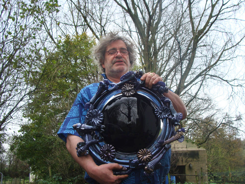 Bernard Heesen with black mirror